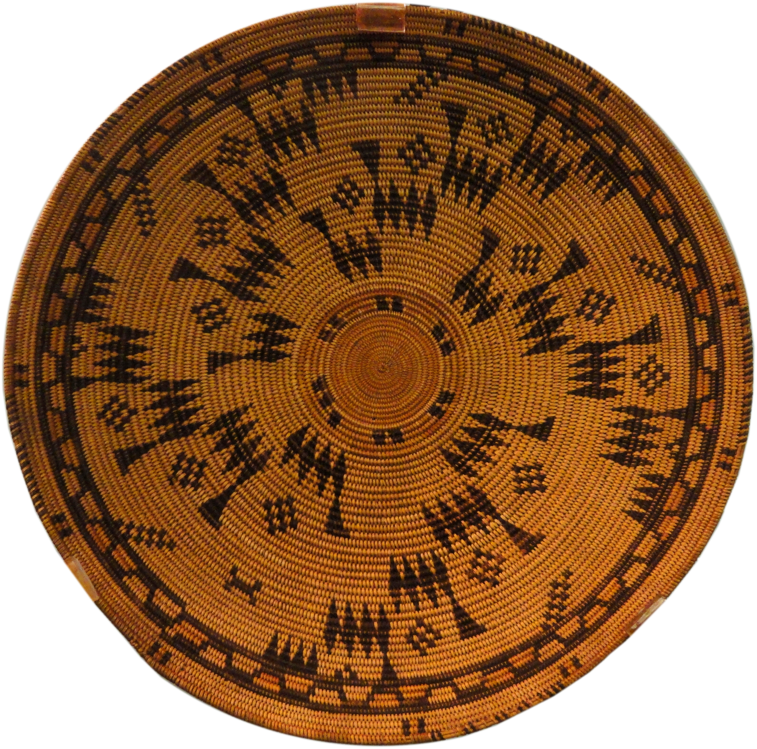 Basketry tray, Chumash, Santa Barbara Mission, early 1800s. Exhibit from the Native American Collection, Peabody Museum, Harvard University, Cambridge, Massachusetts, USA. Photography was permitted without restriction; exhibit is old enough so that it is in the public domain.